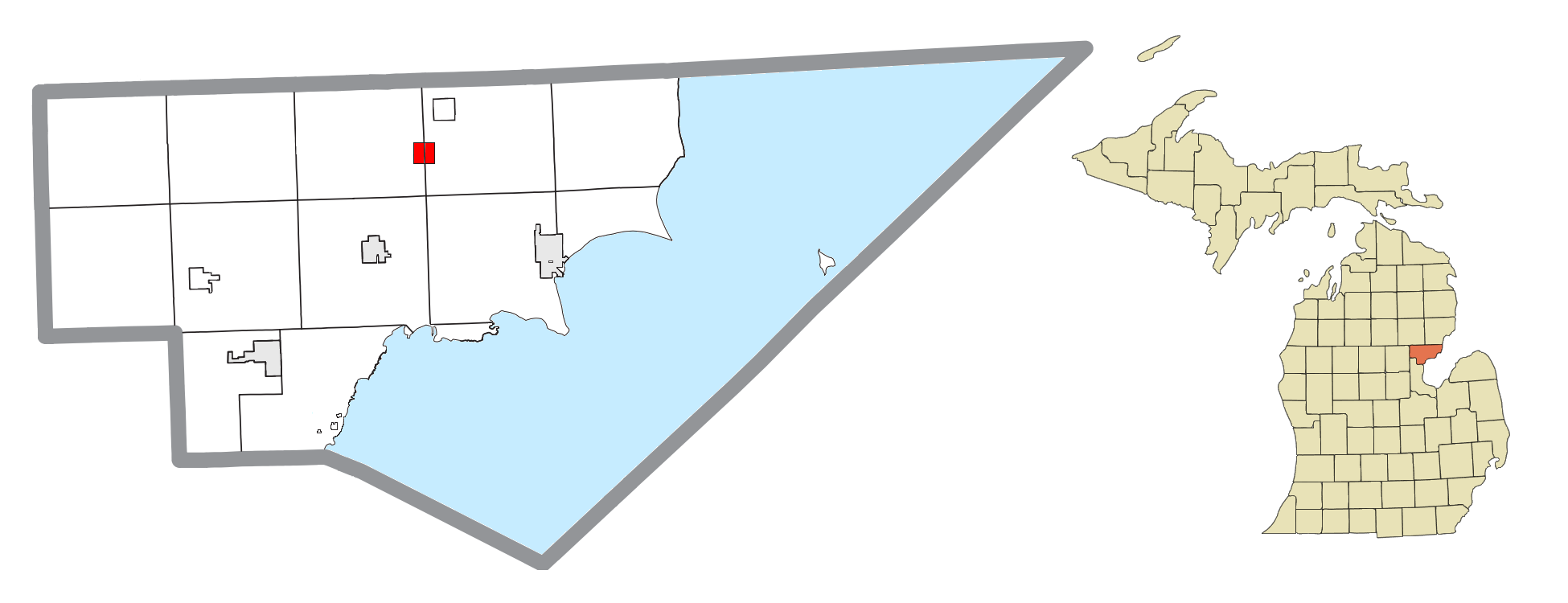 Twining, MI